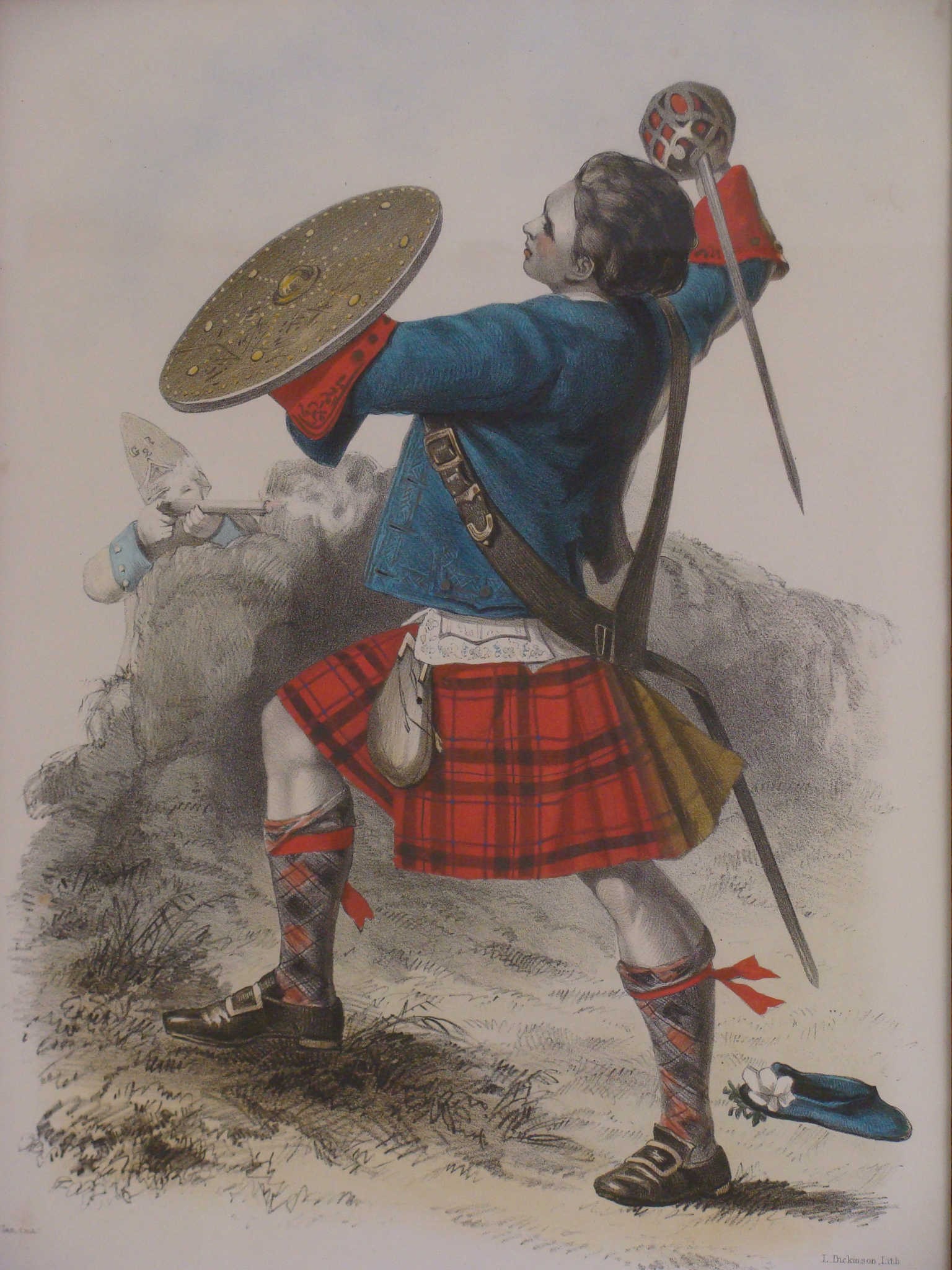 Picture of Gillies MacBean, Captain in the Mackintosh regiment, shown at the Battle of Culloden defending the gap in the wall.